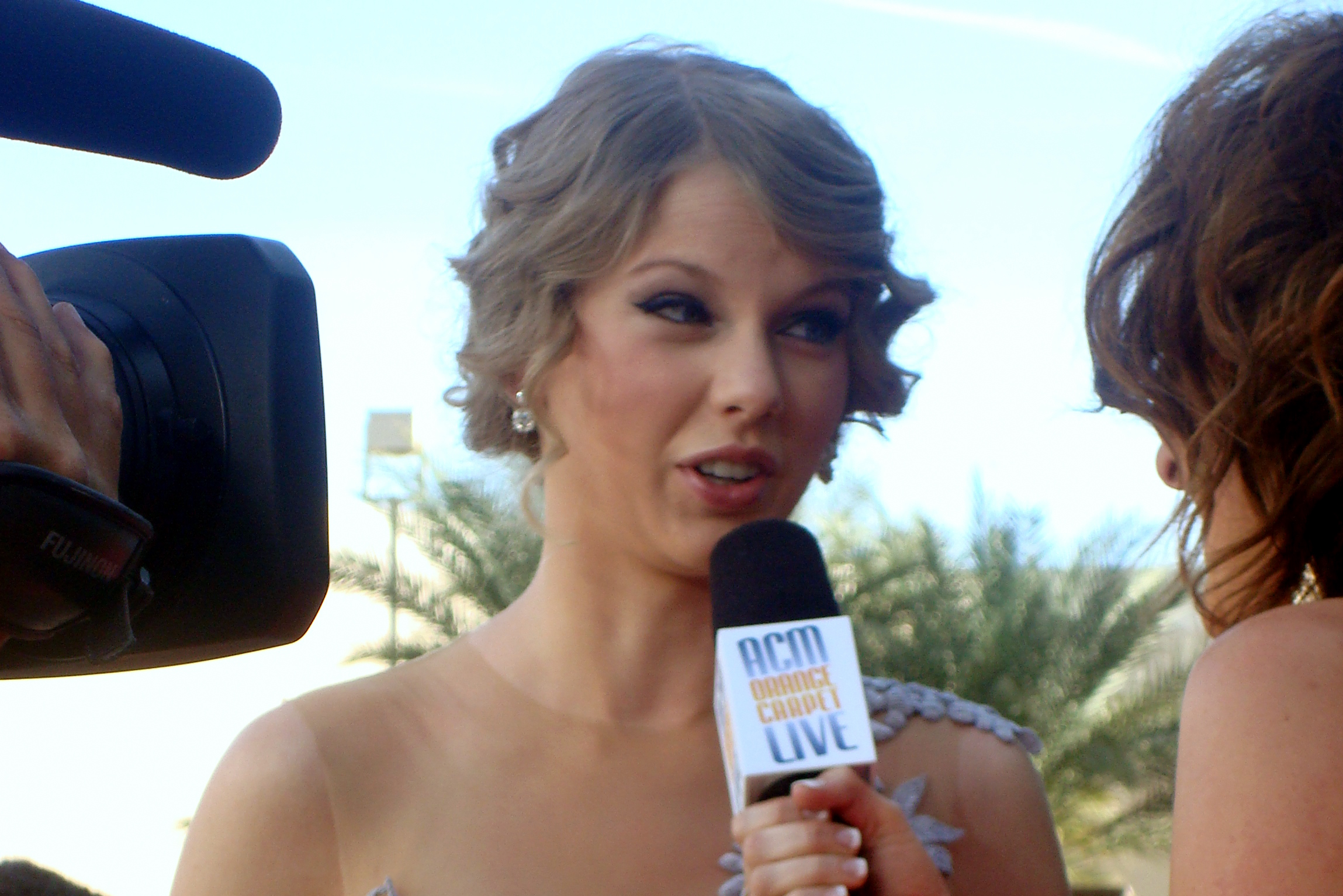 Taylor Swift at the 2010 Academy of Country Music Awards